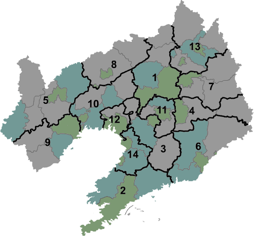 Map of prefectures of Liaoning Province